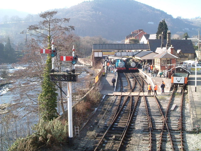 Llangollen Railway Station Thomas the Tank Engine waiting to leave